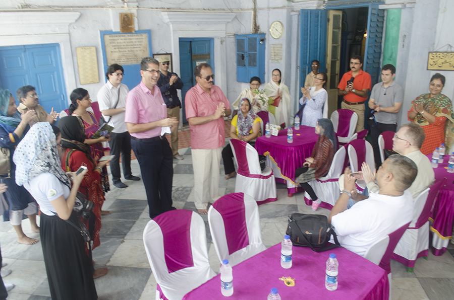 ITC Sonar Metiabruz walk group at Sibtainbad Imambara, Metiabruz